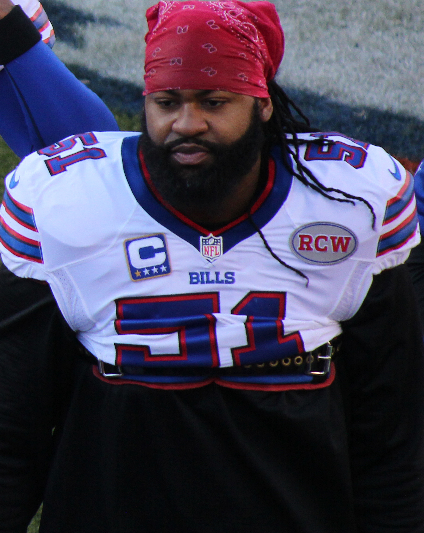 Brandon Spikes, a player on the National Football League.